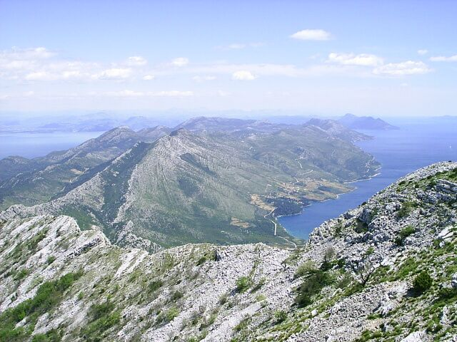 Pelješac peninsula in Dalmatia, Croatia